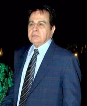 Dilip Kumar at Nitish Rane's wedding reception